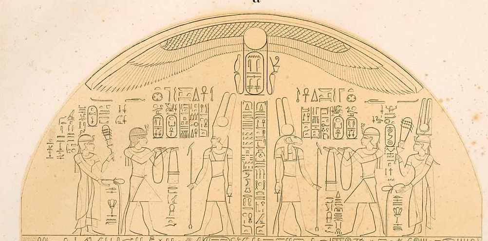 King Nastasen with his mother Queen Pelka and Wife Queen Semakh. Stela from Dongola.